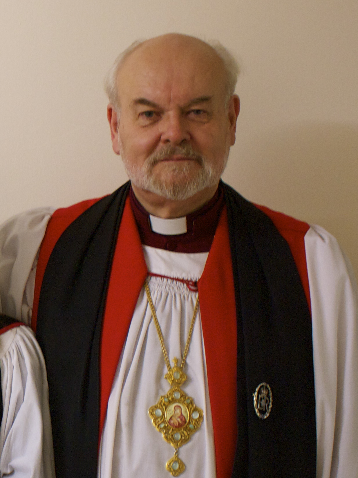 Richard Chartres, the Bishop of London